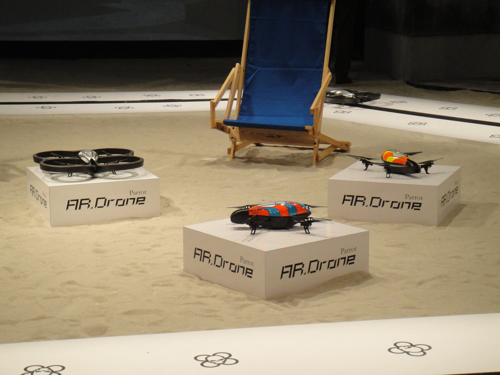 Parrot AR.Drones